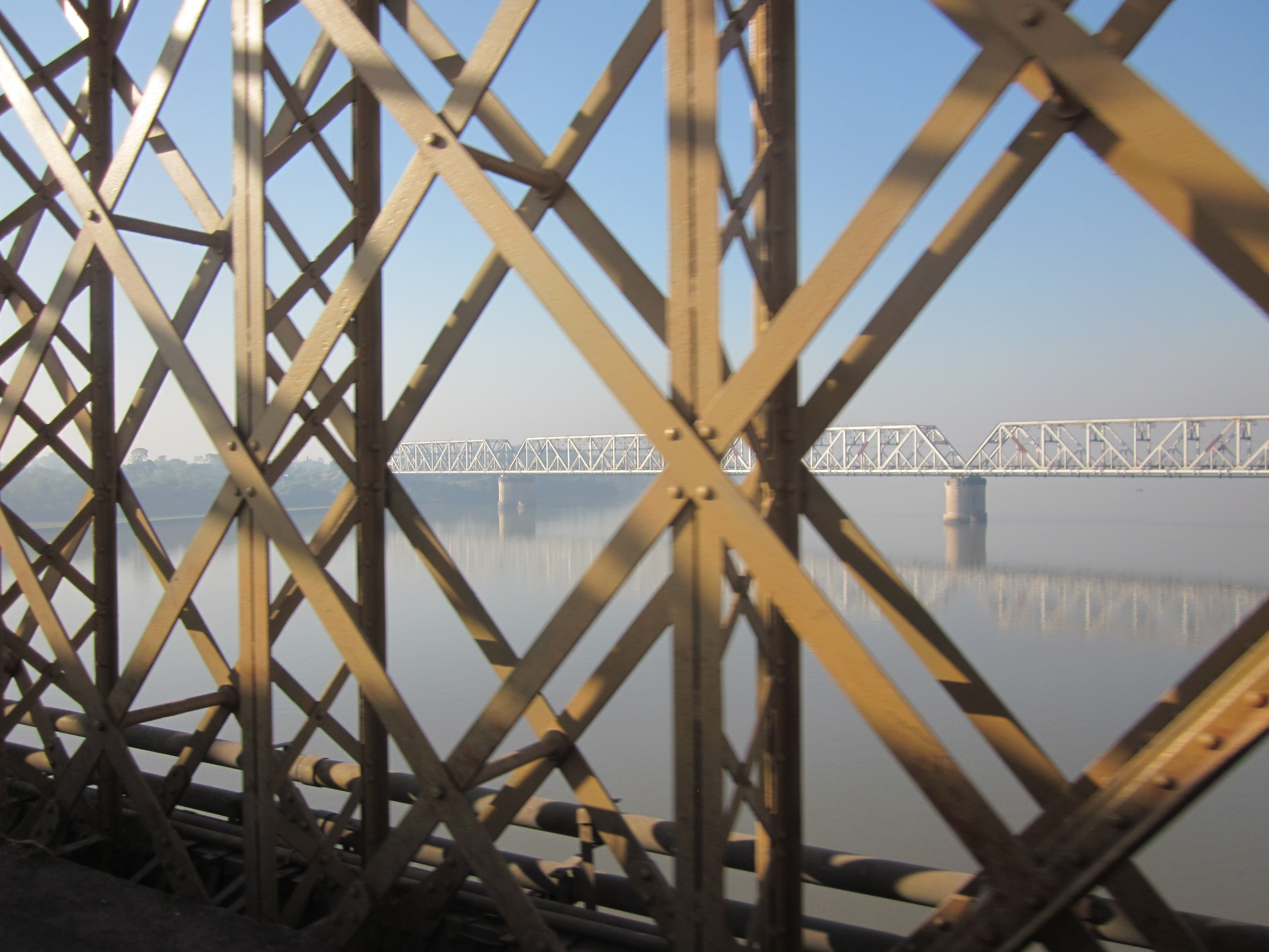 Photograph taken from the Narmada Bridge Ankleshwar. Silver railway bridge is visible in the background.